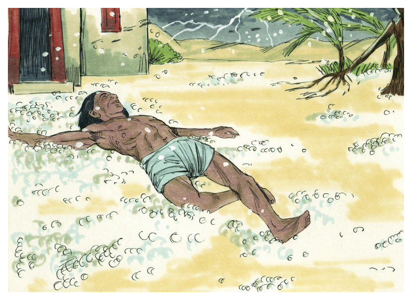 Biblical illustration of Book of Exodus Chapter 10